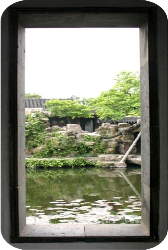 "Screen" - wall breakthrough in chinese garden to display a perfect landsape